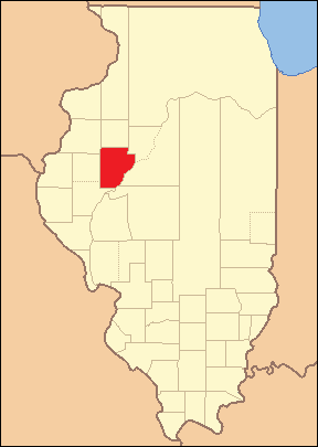 Locator Map of Fulton County, Illinois, 1825. Based on: Illinois Secretary of State. Origin and Evolution of Illinois Counties. March 2010. p. 45.